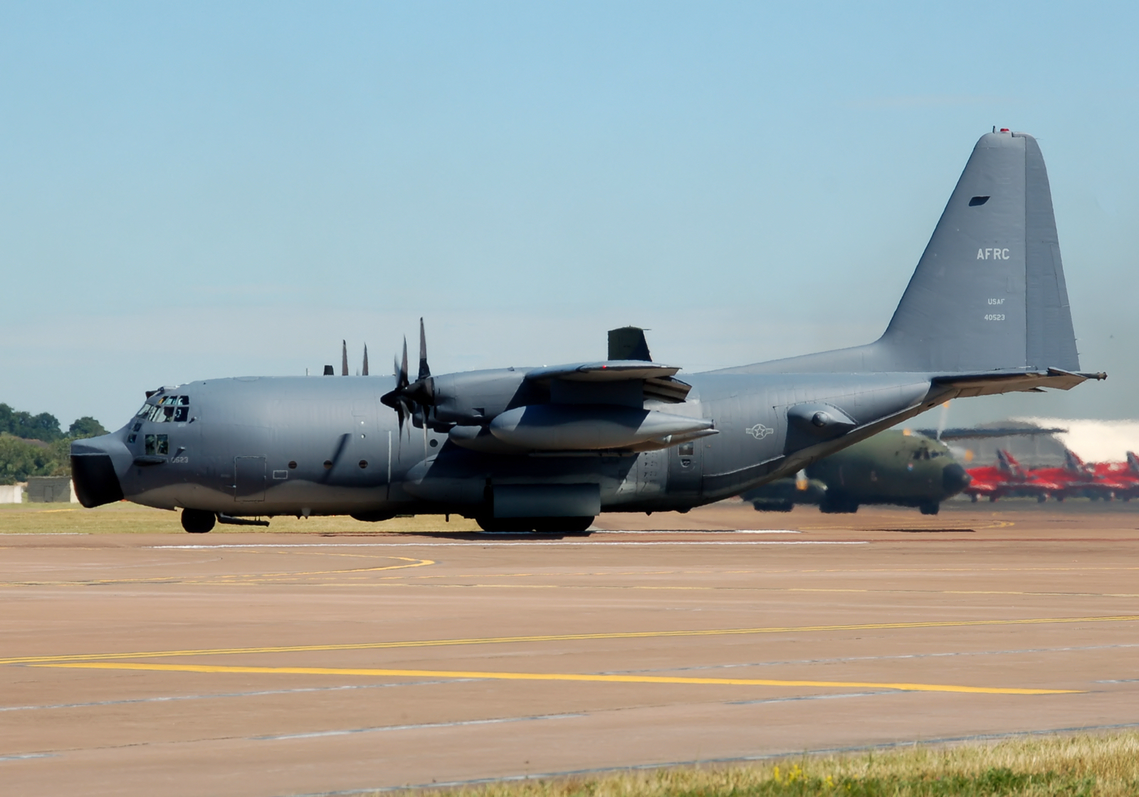 Lockheed Hercules MC-130E Combat Talon I of the USAF taxis to the runway at the 2010 Air Tattoo, Fairford, Gloucestershire, England. The nose marking is 0523, the tail marking is 40523 and AFRC.